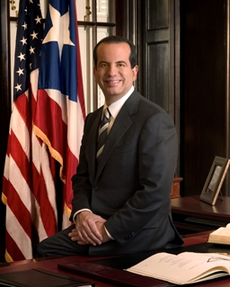 Anibal Acevedo Vila